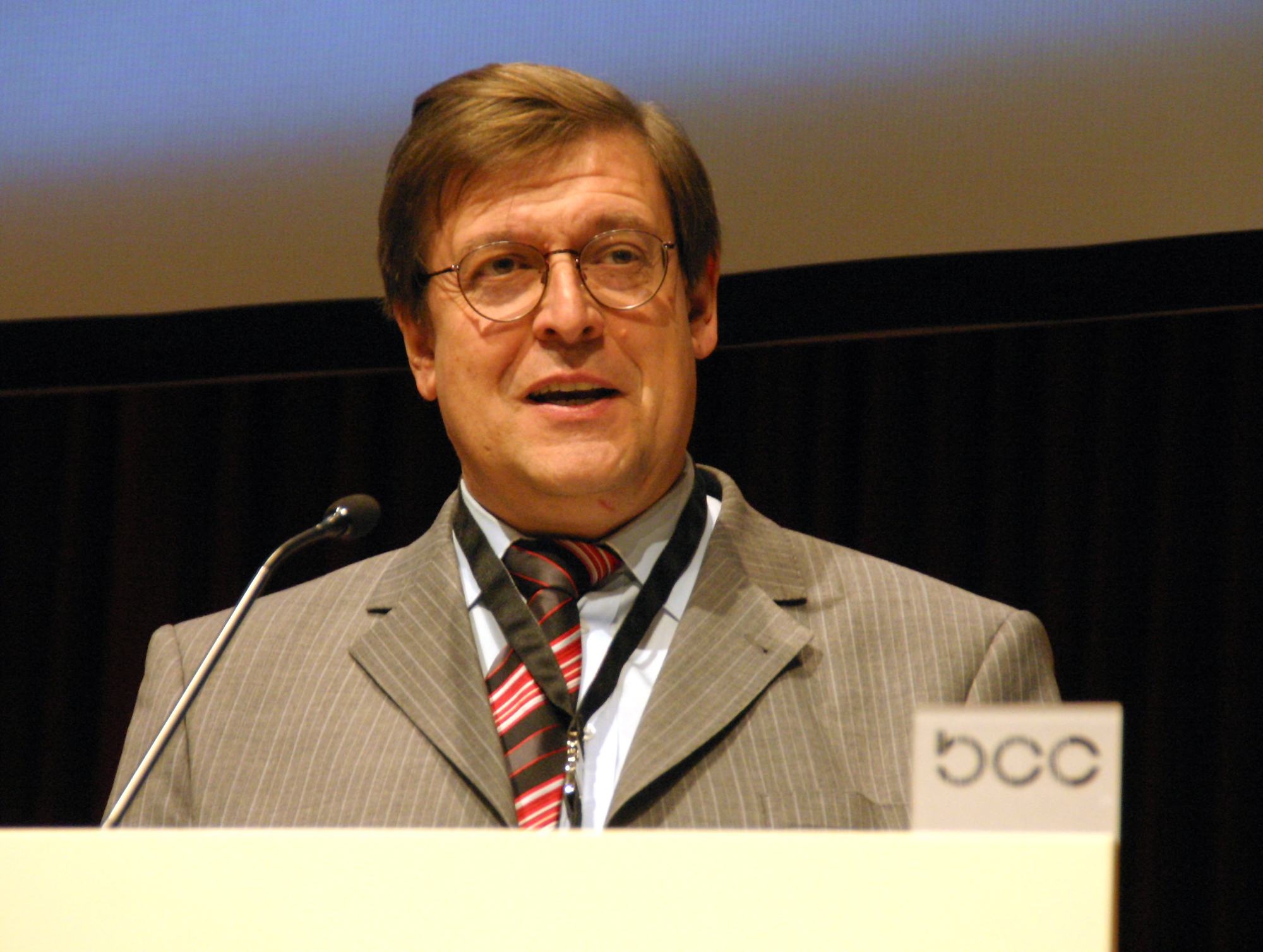 Jörg Tauss, German politician (SPD), member of parliament, at the 22C3 congress in Berlin